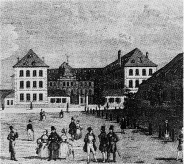 If you can, help make this description accessible to all by translating it into other languages. – Thanks!